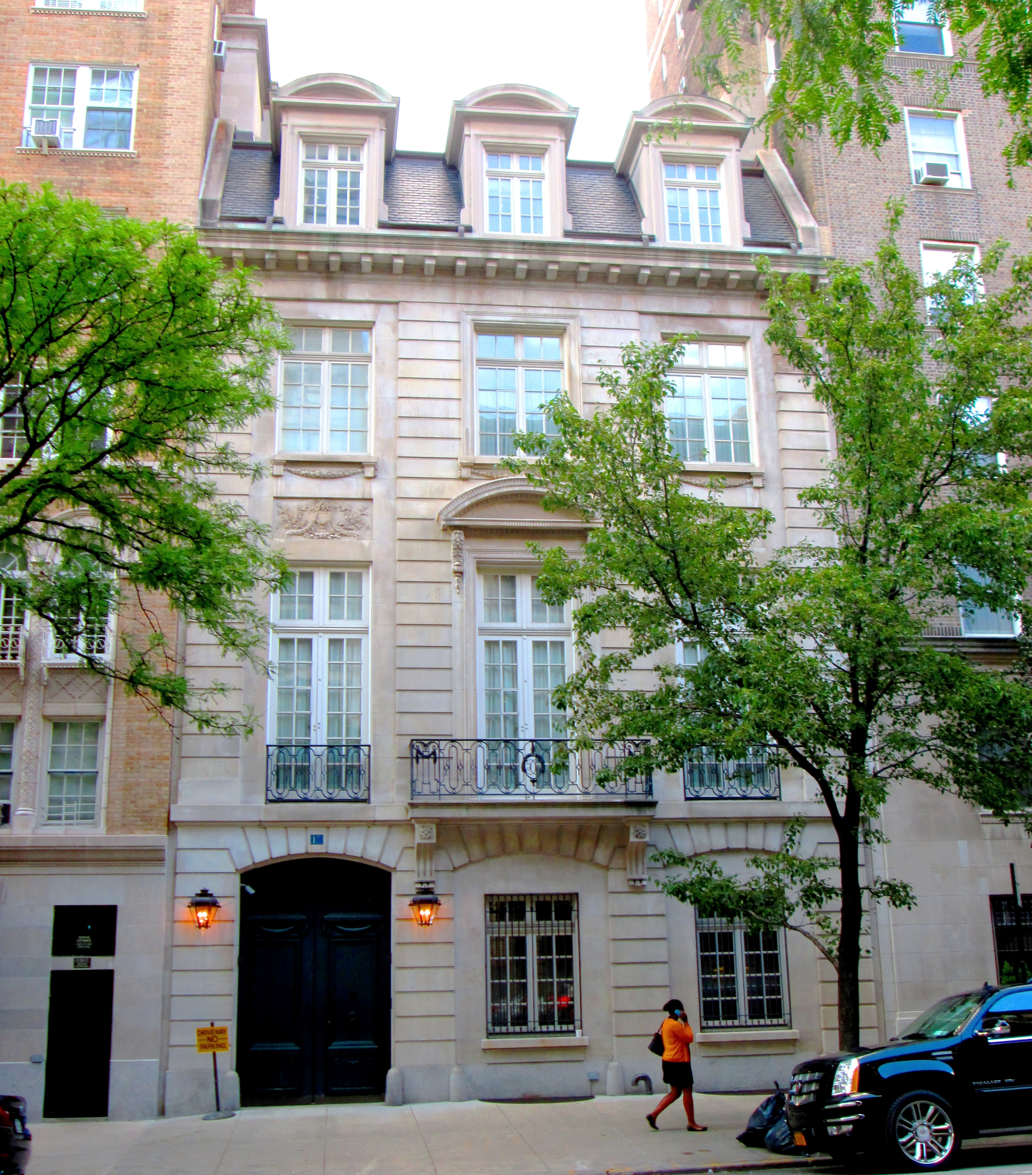 The Lucy Drexel Dahlgren House is located at 15 East 96th Street between Fifth and Madison avenues, on the border between the Carnegie Hill and East Harlem neighborhoods. It was built in 1915-1916 and was designed by Ogden Codman, Jr. in the French Renaissance Revival style. It was later occupied for many years by Pierre Cartier, who founded the Cartier jewelery store. The house in located in the Upper East Side Historic District.